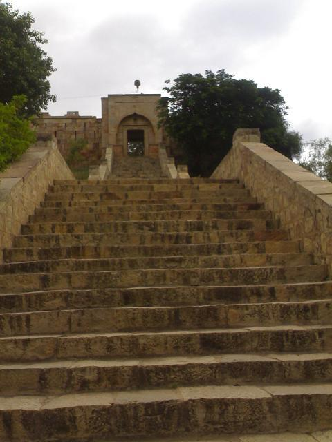 Savadatti Fort Author and Source : Manjunath Doddamani, Gajendragad, Karnataka (North), India